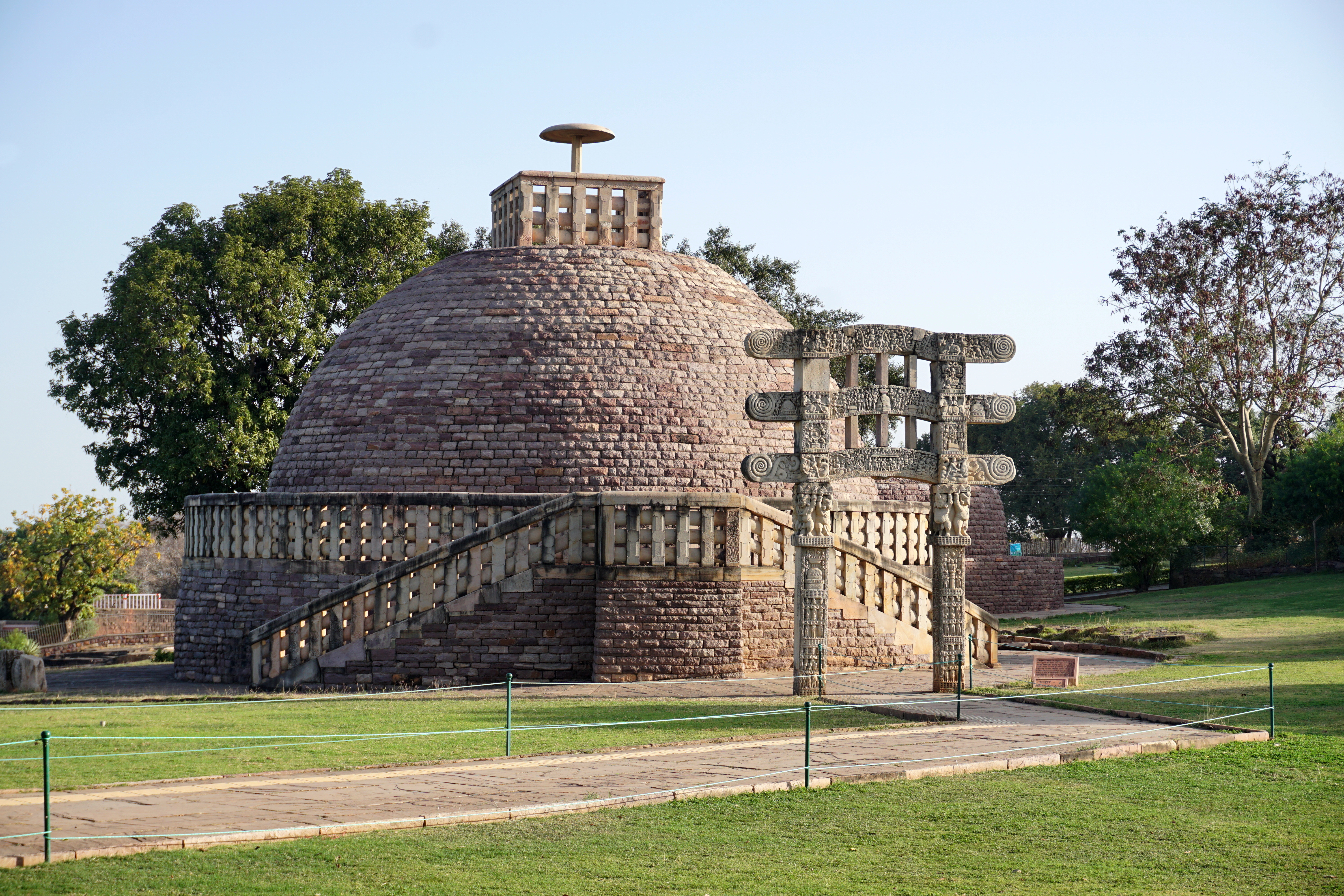 03 Front View, Sanchi Stupa no. 3, photograph by Anandajoti Bhikkhu Bhaja Caves, Lonavala, India